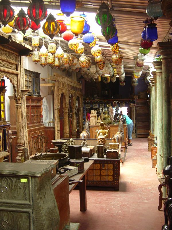 An antique shop showcasing Jewish remnants of Kochi, India.